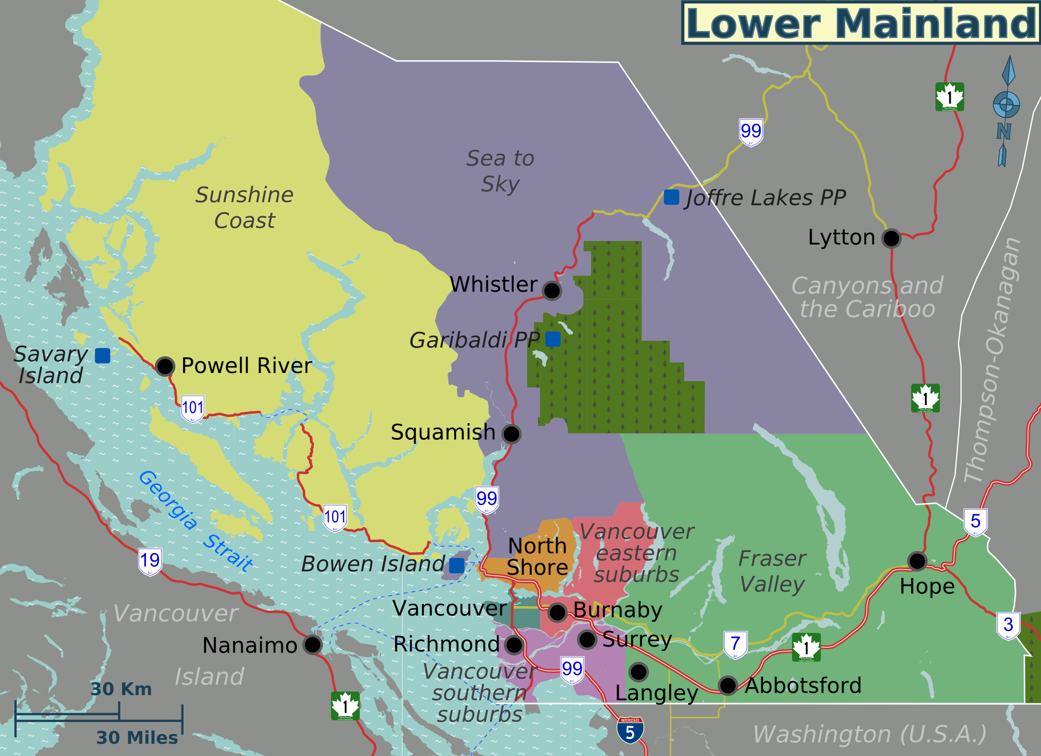 Map of regions in the Lower Mainland (British Columbia) for use on Wikivoyage, English version